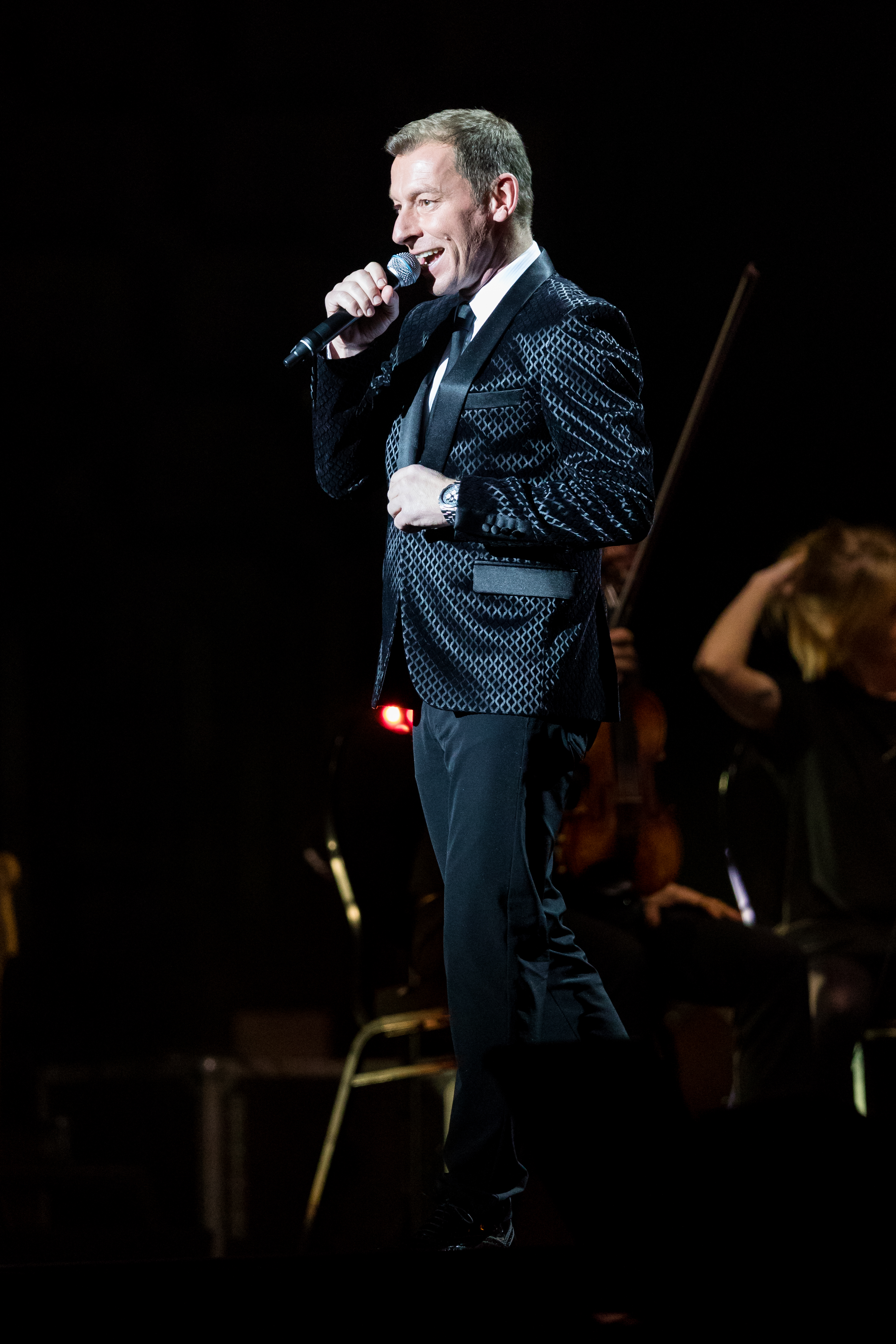 Markus Othmer during Night of the Proms at SAP Arena, Mannheim, Baden-Württemberg, Germany on 2017-12-22, Photo: Sven Mandel